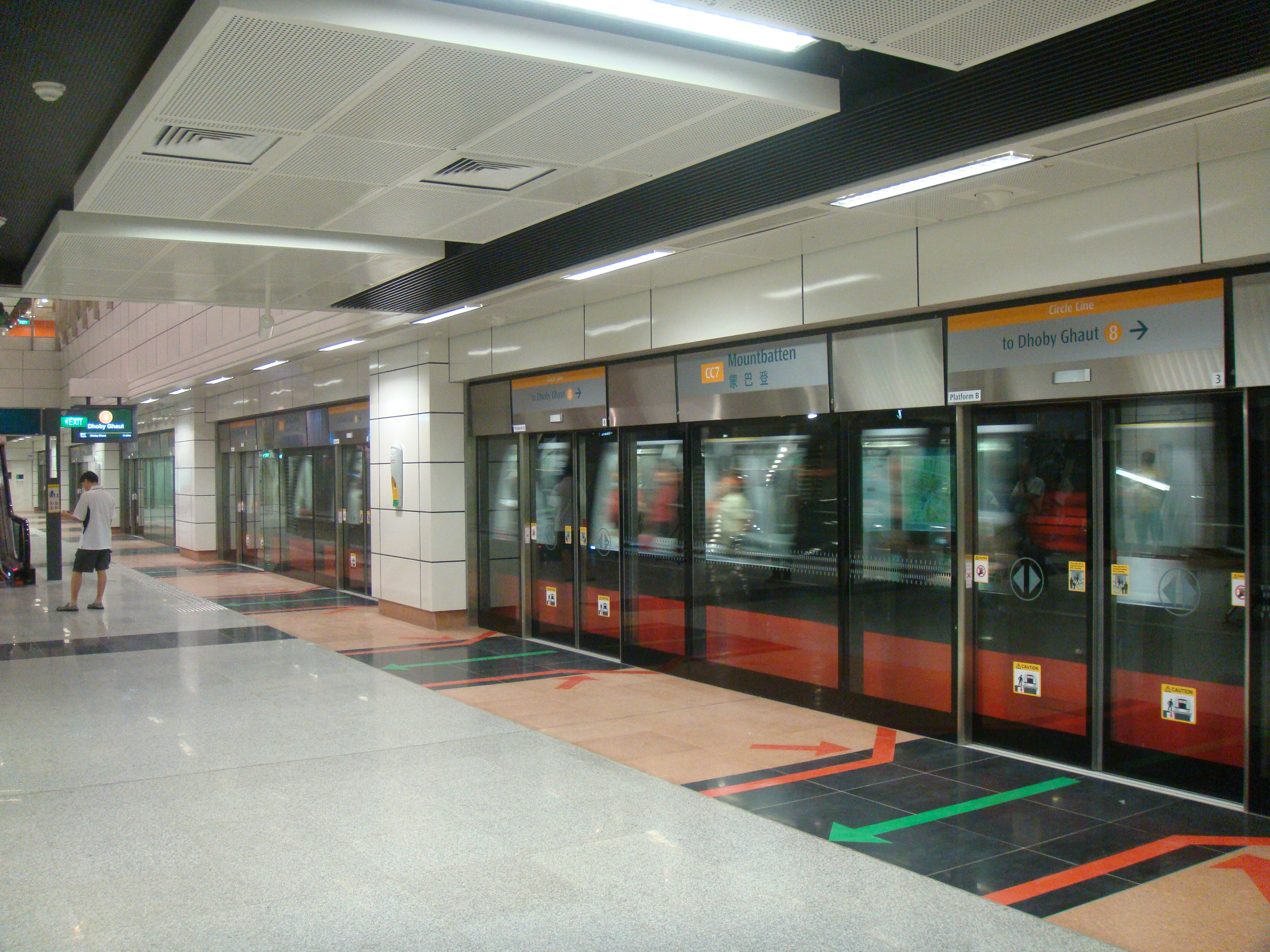 Circle Line platform of MacPherson MRT Station, taken on the LTA Circle Line Discovery II Open House.